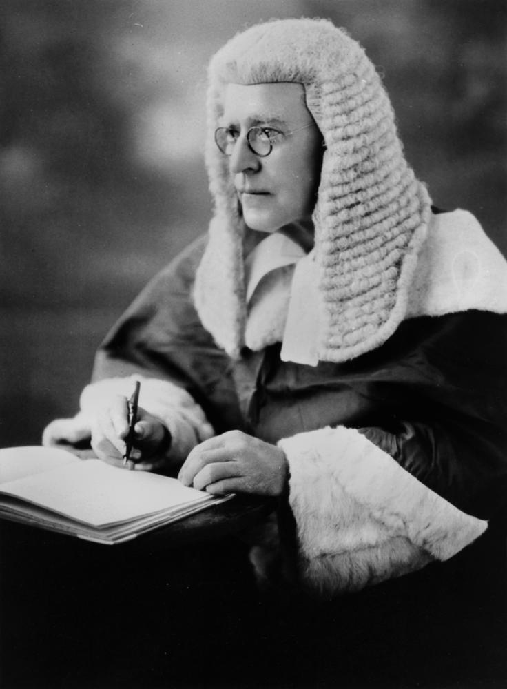 Judge John Laskey Woolcock, Puisne Judge, 1 February 1927, died 18 January 1929. Identified from Brisbane Grammar Magazine, July 1929. (Description supplied with photograph)